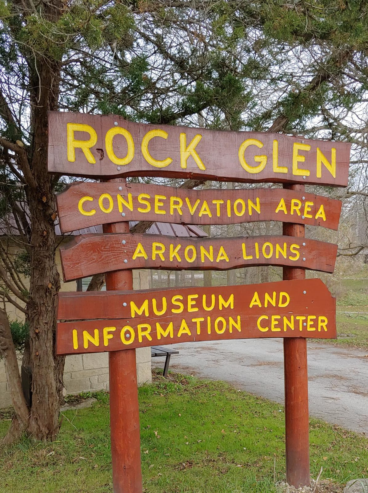 Entrance sign to the Rock Glen Conservation Area in Arkona, Ontario, Canada.